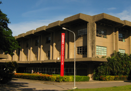 The Robert B. and Metta J. Silliman Library (university library)